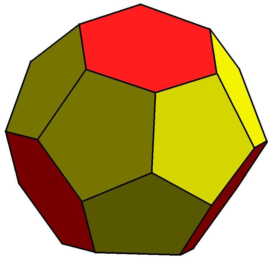 Polyhedron data generated with [1] and Conway Polyhedron notation t6dtT.